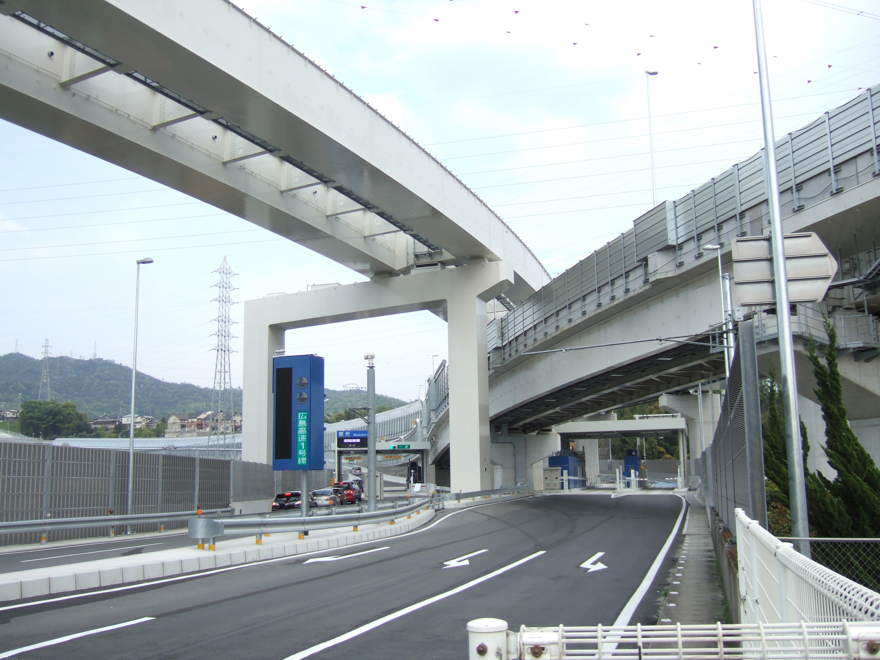 Madokoro Interchange(Hiroshima Expressway 1)